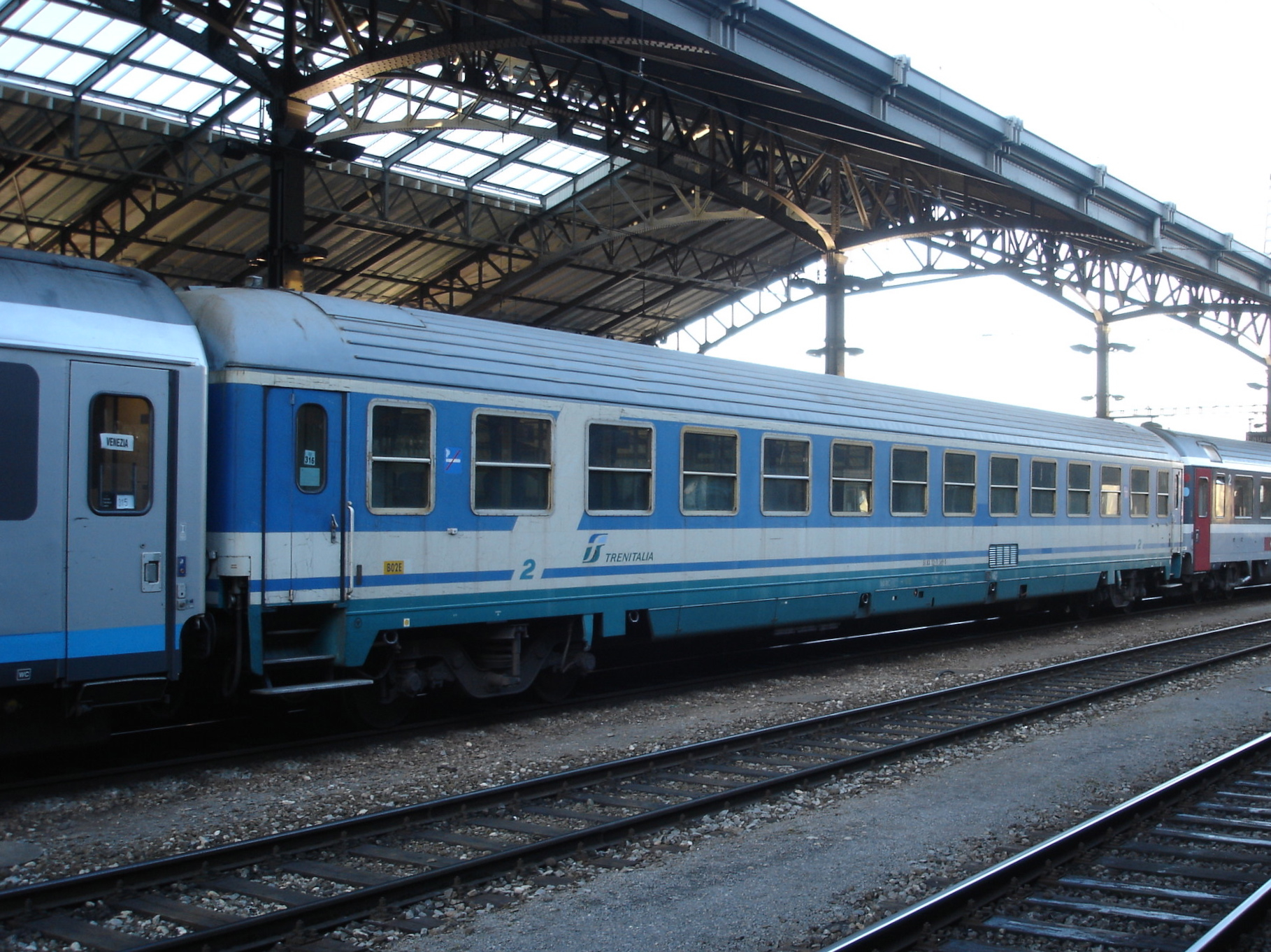 FS B 51 83 22-71 569-0 in the consist of EuroCity 121 "Cisalpino Monteverdi" from Genève Aéroport to Venezia S. Lucia at Lausanne train station.